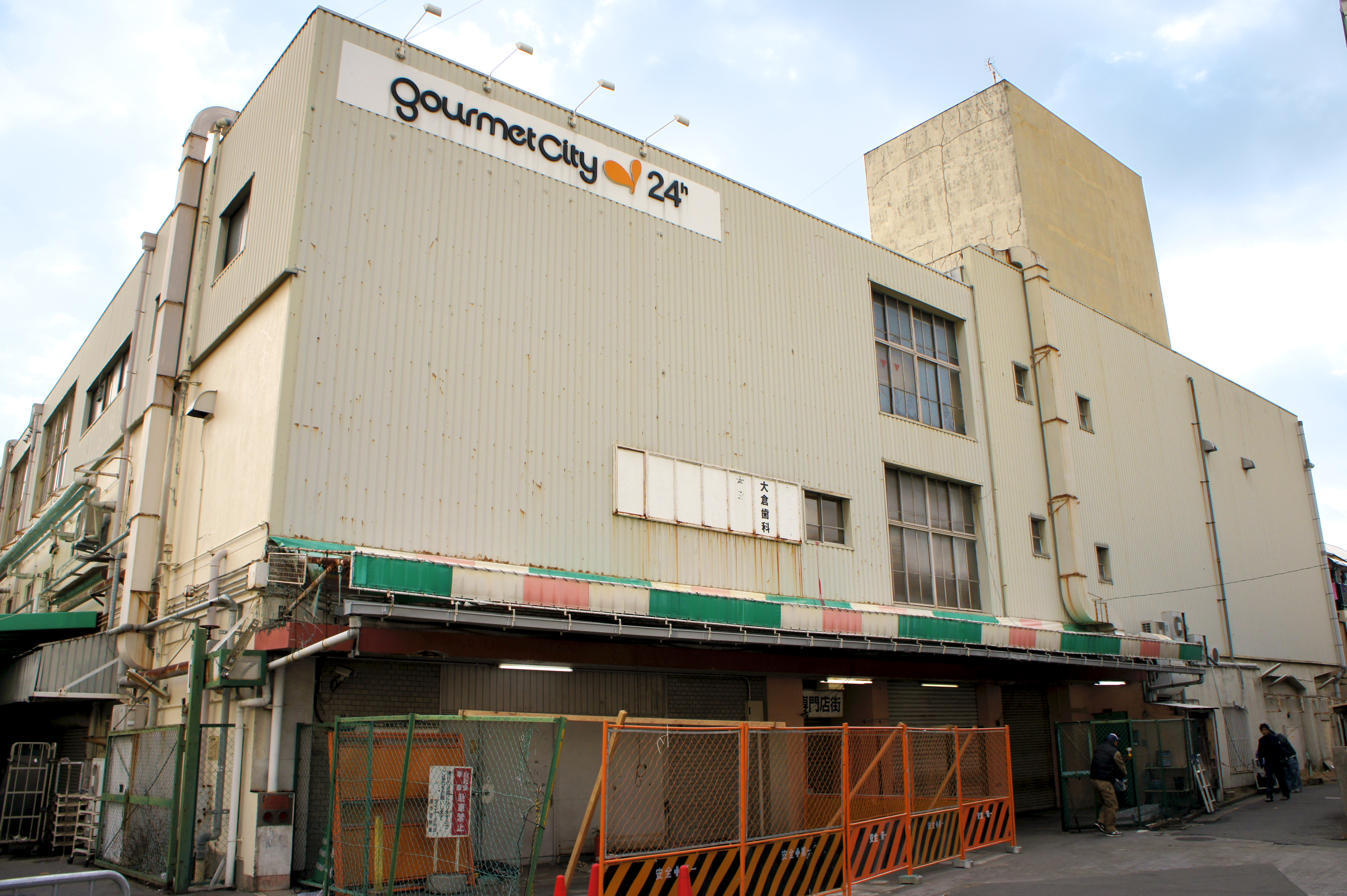 Daiei Gourmetcity Shonai, 2-23-23 Shonainishimachi Toyonaka-City Osaka Japan.